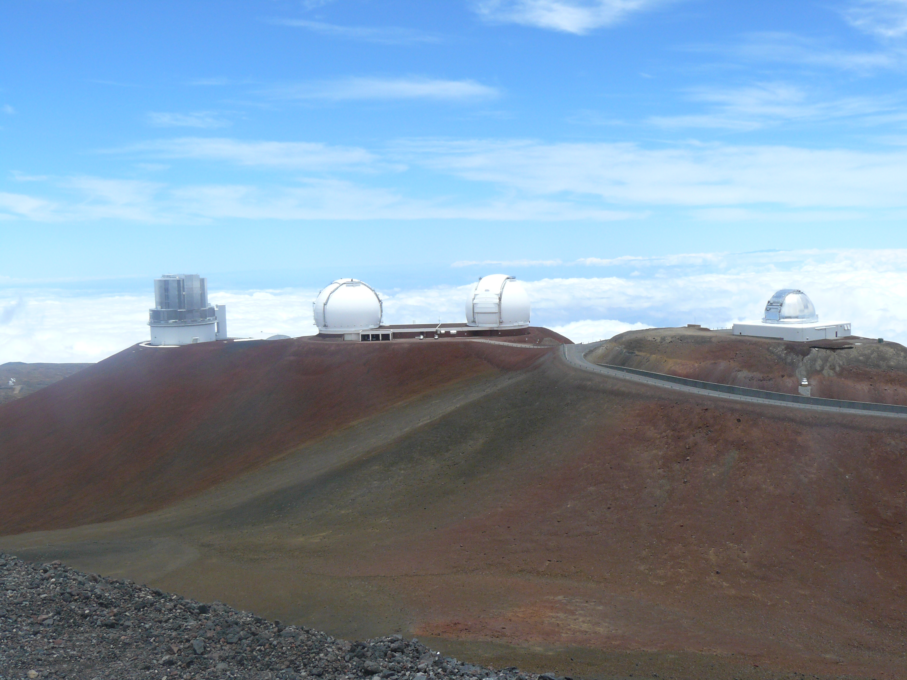 View of three observatories which are part of the Observatories of Mauna Kea: the Subaru Telescope, the twin telescopes of the W. M. Keck Observatory, and the NASA Infrared Telescope Facility.